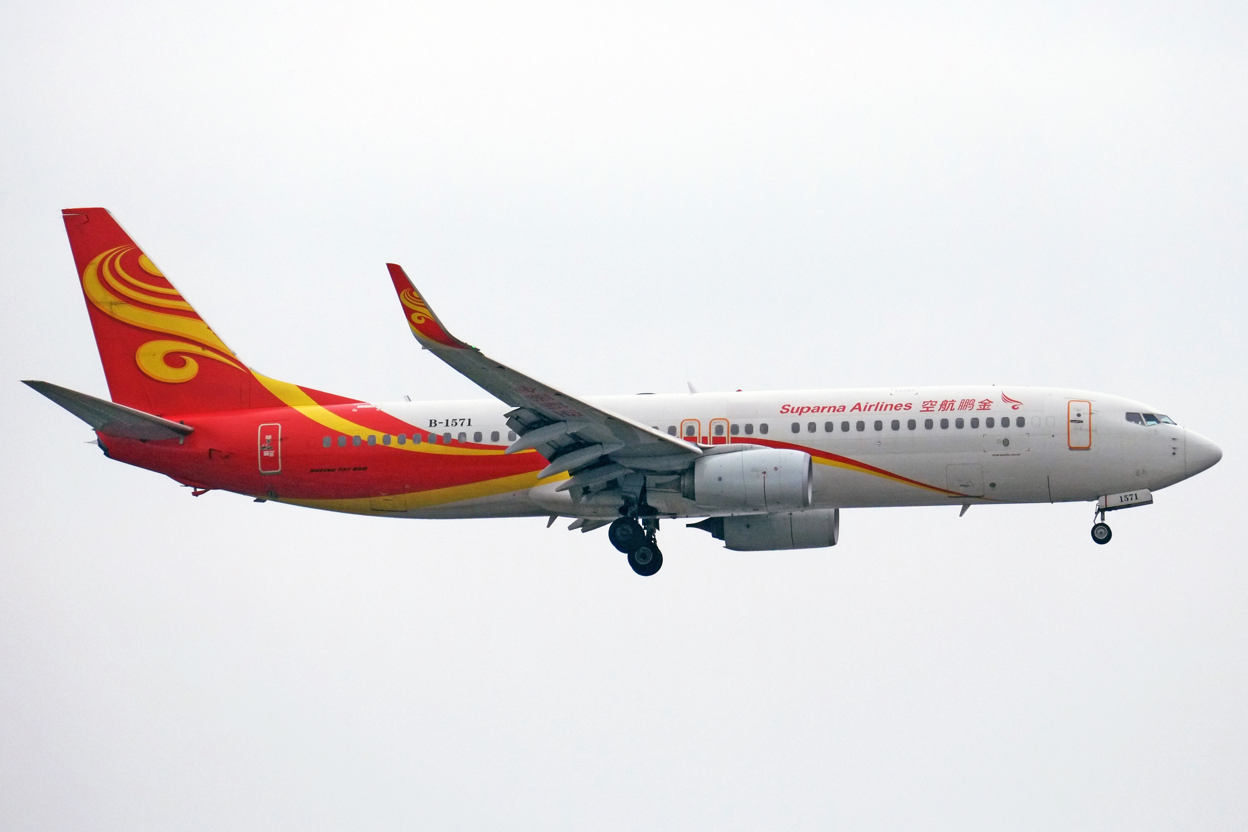 Y87525 SZX-CGO